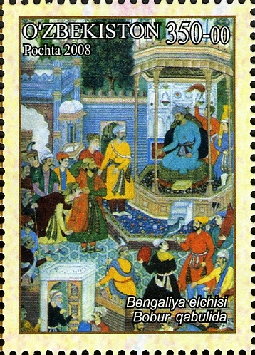 Stamps of Uzbekistan, 2008